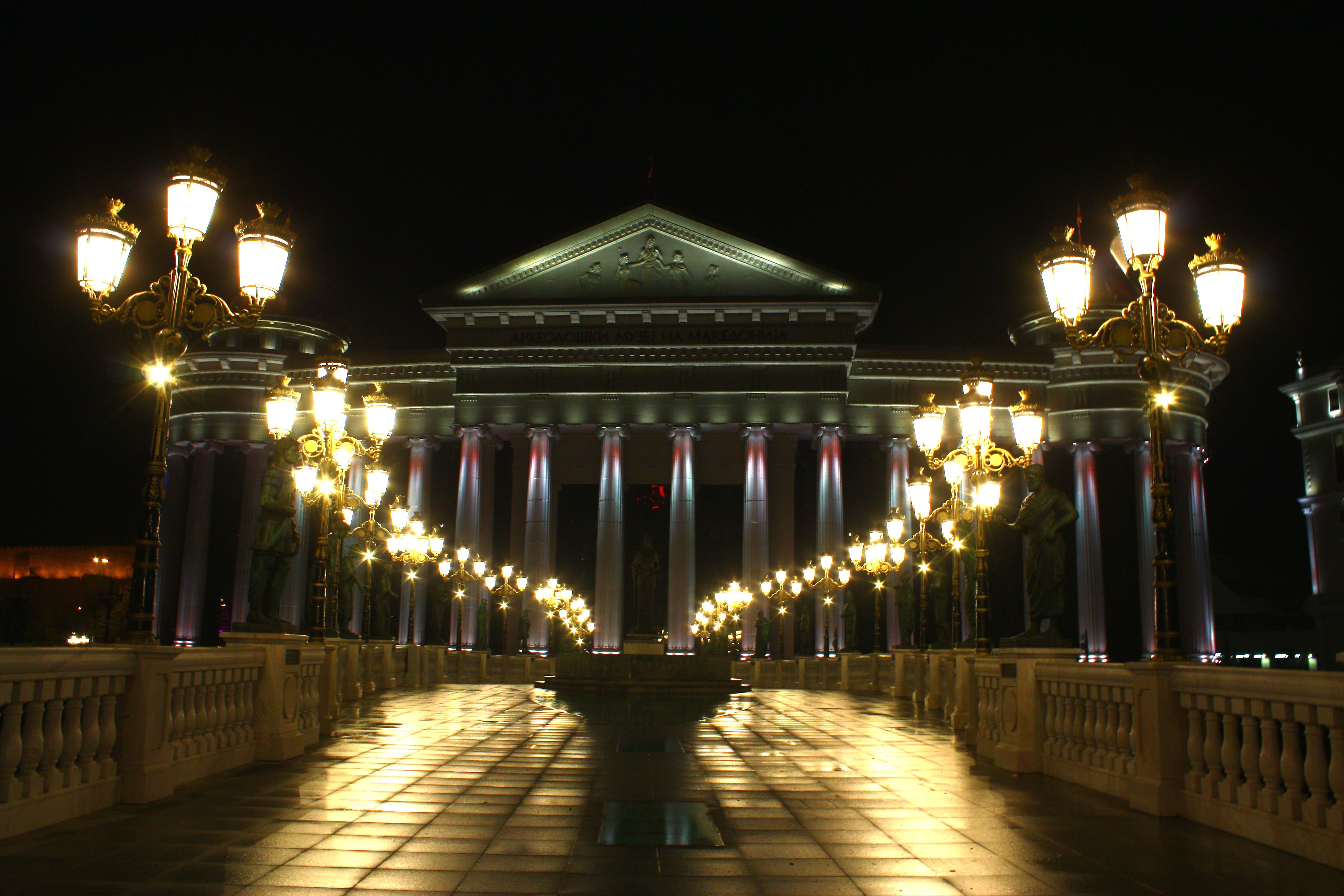 Archeological Museum of Macedonia in Skopje, Macedonia